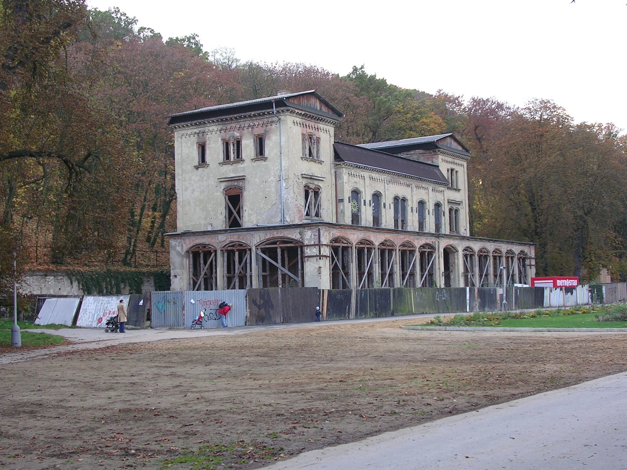 Bubeneč, Prague. A former tram depot.